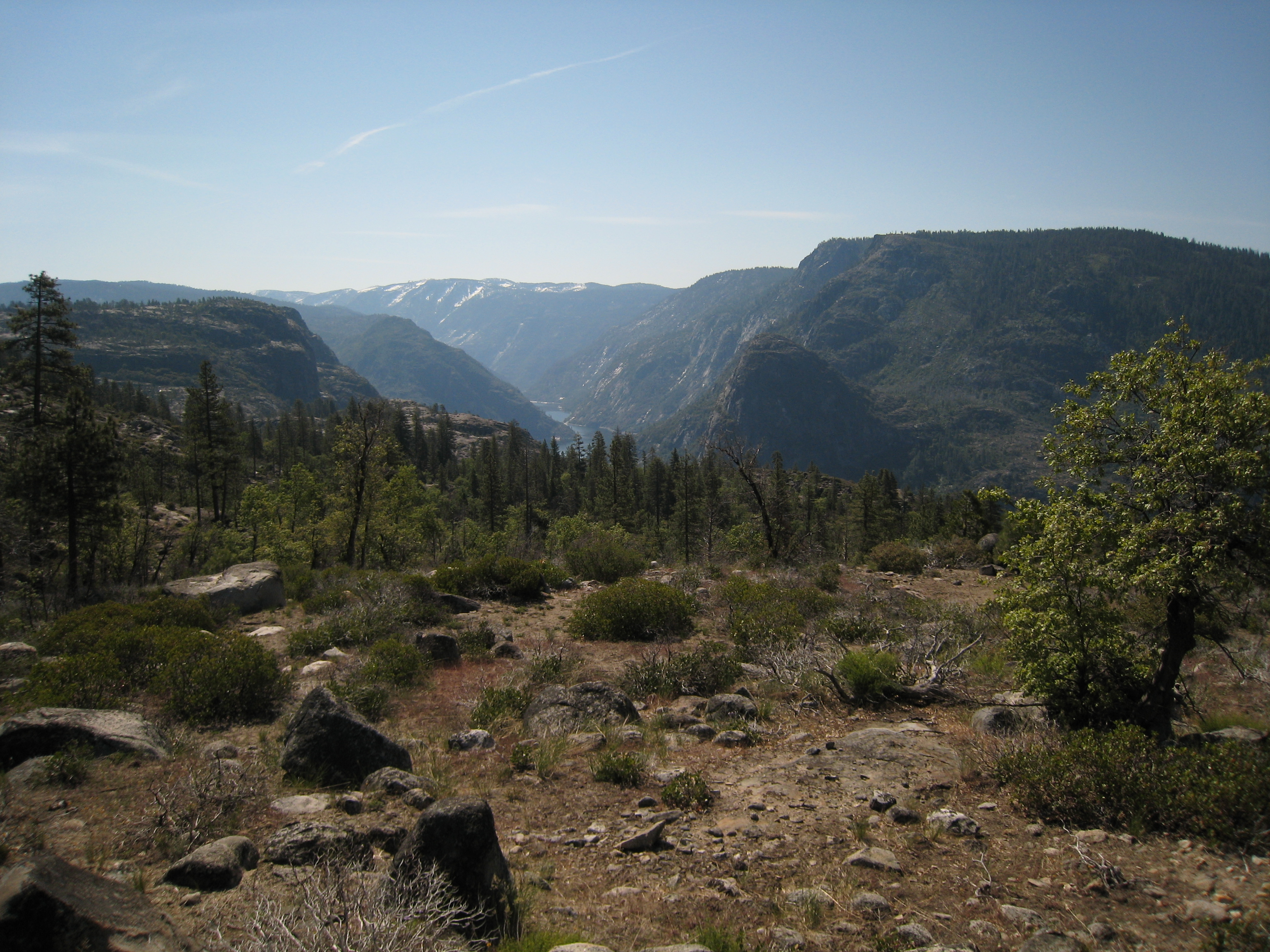 Distant view up the Grand Canyon of the Tuolumne; Kolana Rock on the right, Smith Peak over it; Hetch Hetchy Dome and Le Conte Point on the left.